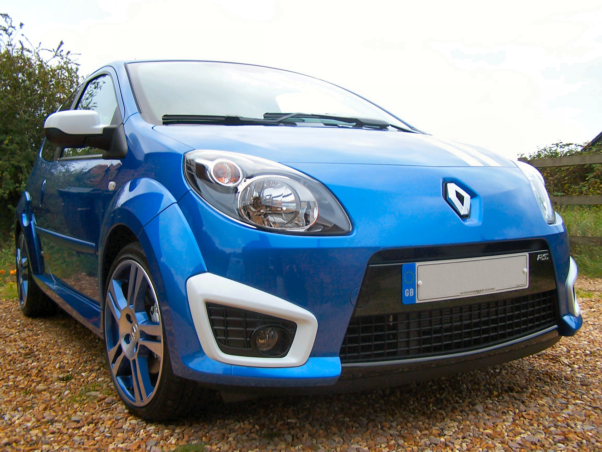 Renault Twingo RS Gordini